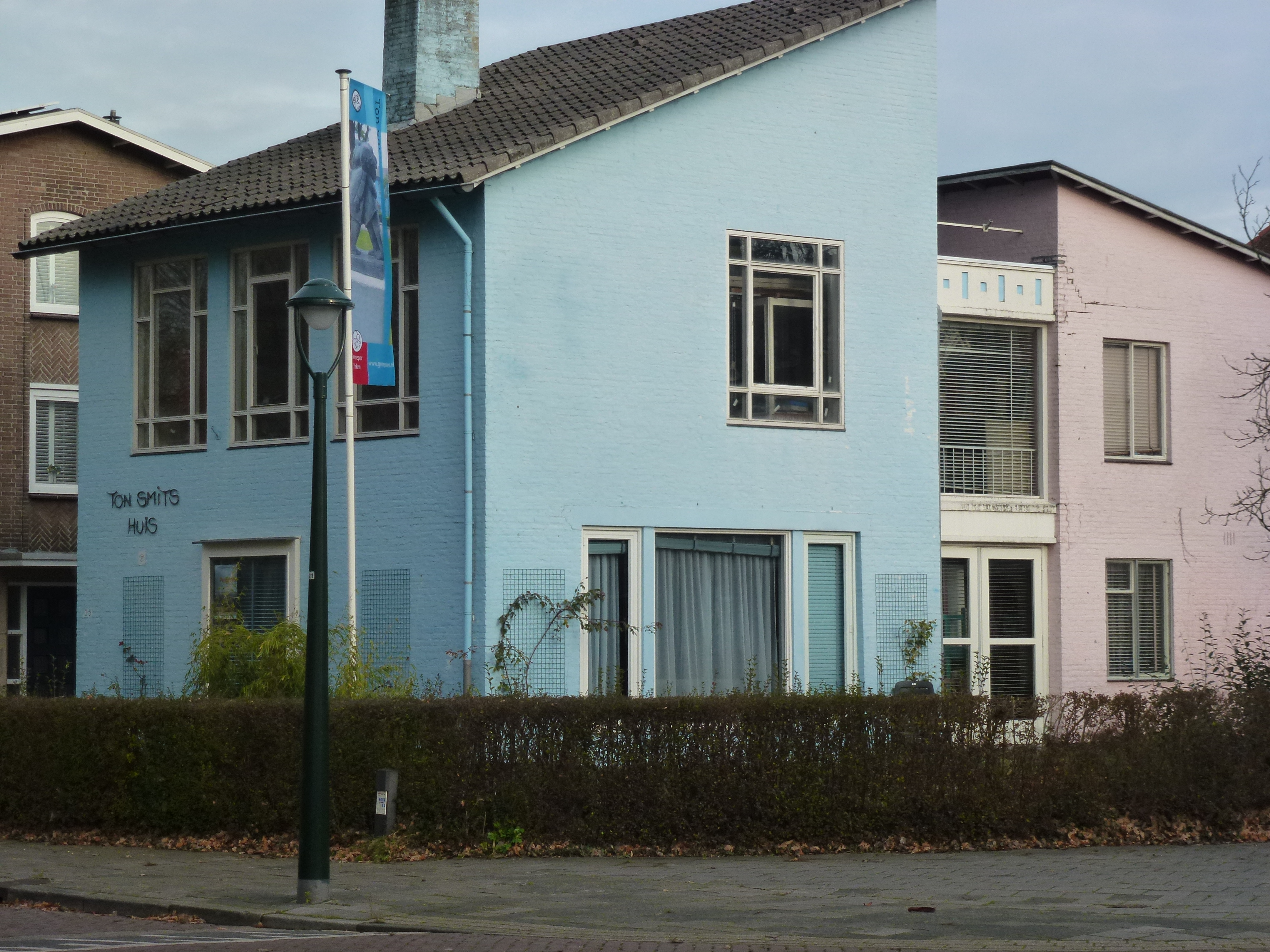 Ton Smitsmuseum Eindhoven